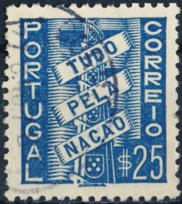 All for the Nation (Tudo Pela Nação), mail stamp, 1935